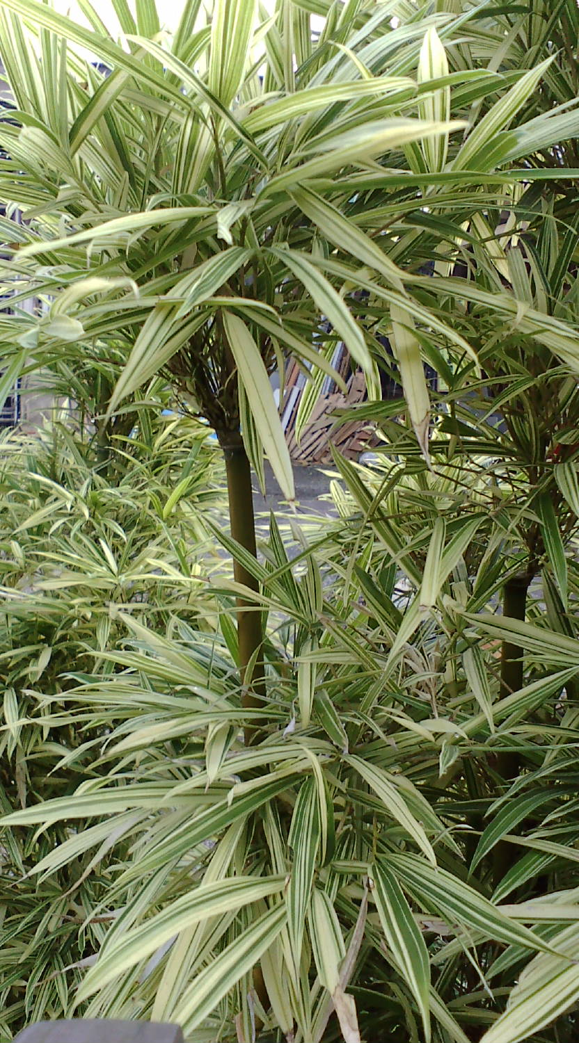 Bamboo (Sinobambusa Toosik form. albo-striata Muroi)